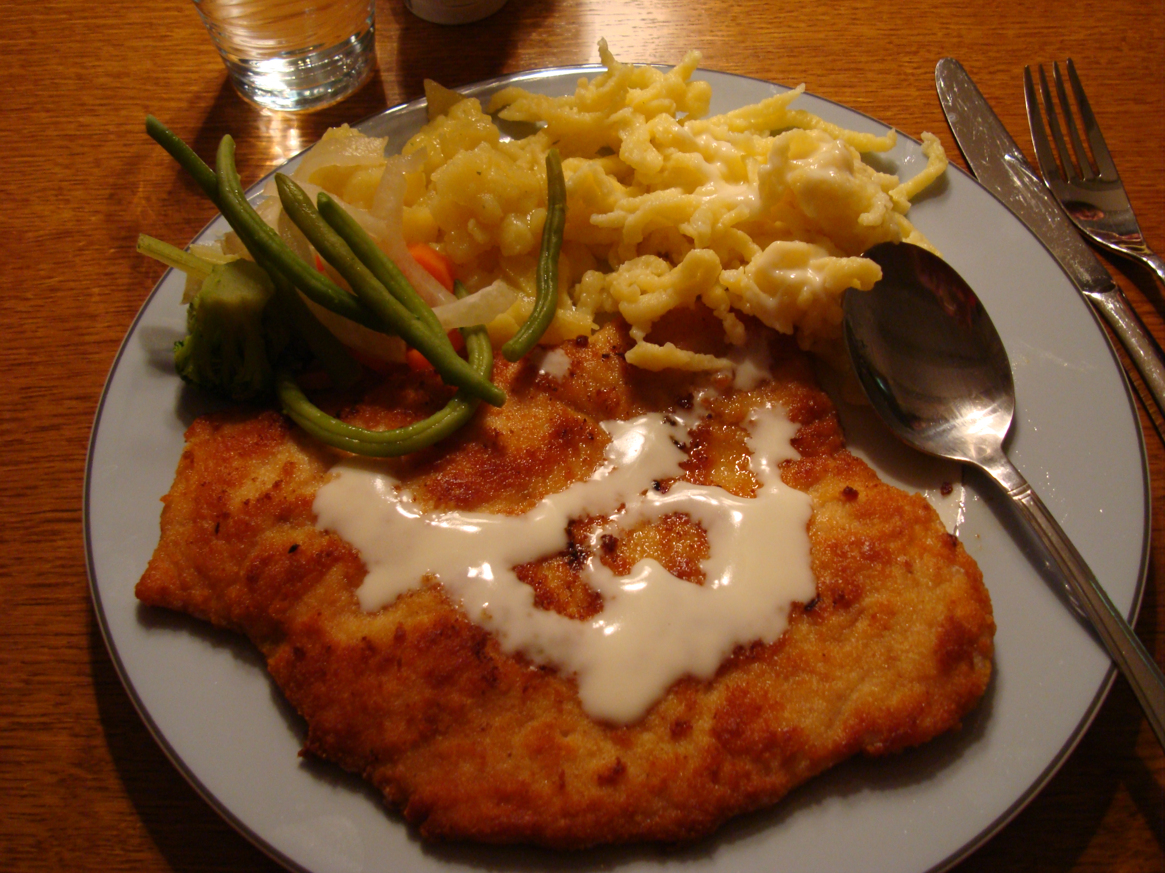 Turkey Schnitzel with Spatzle and vegetables